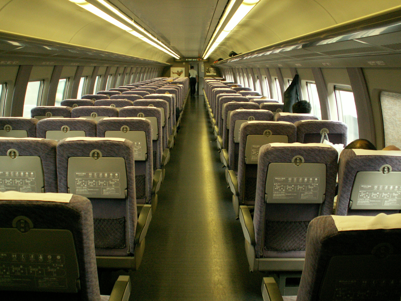 Photograph of 500_Series_Shinkansen inside.